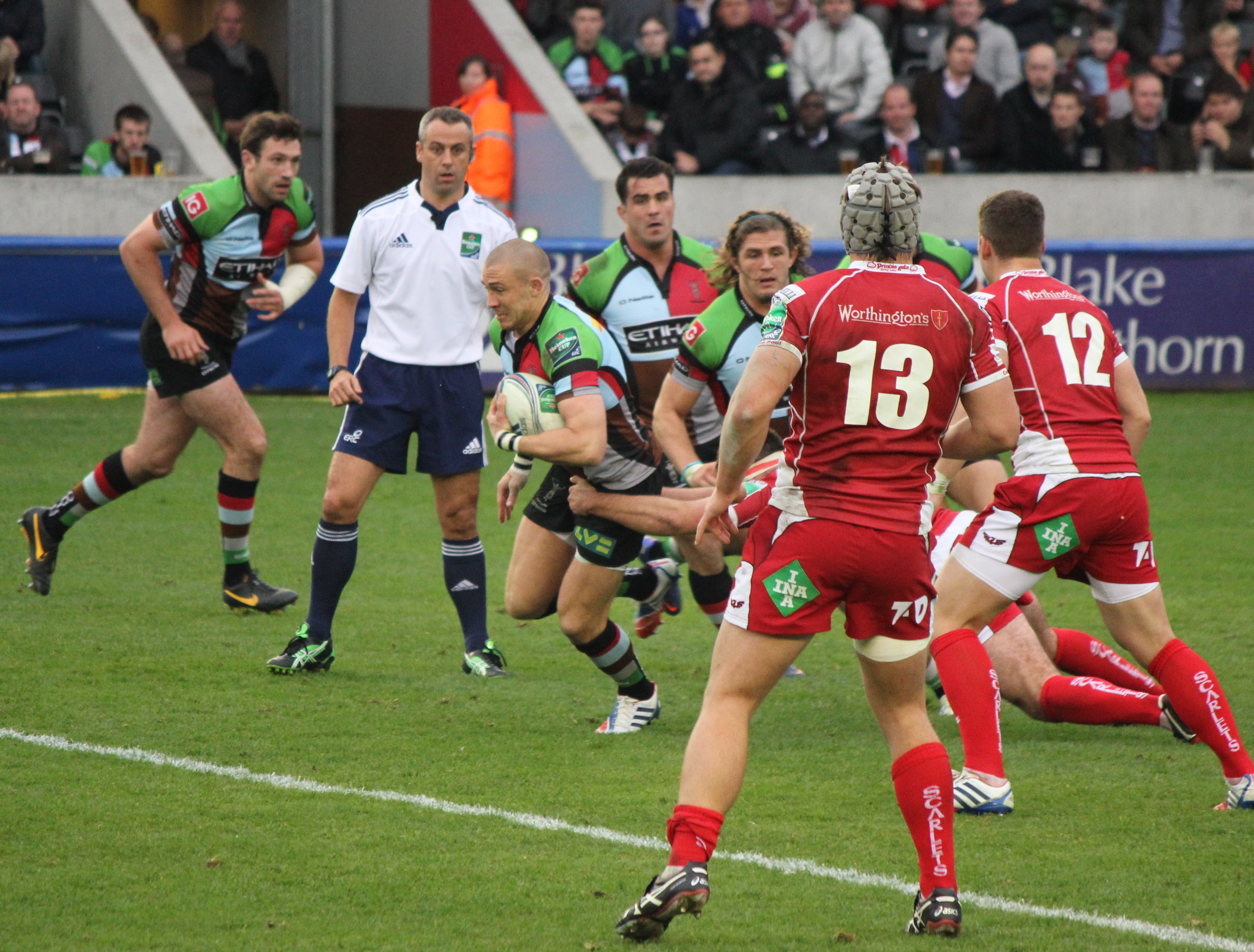 Mike Brown Heineken Cup 2013-14, 12 October 2013, Twickenham Stoop. Match between: Harlequins - Scarlets